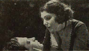 Still from the American crime drama film Voices of the City (1921) (also known as The Night Rose) with Leatrice Joy and Cullen Landis, on page 60 of the October 1922 Photoplay.